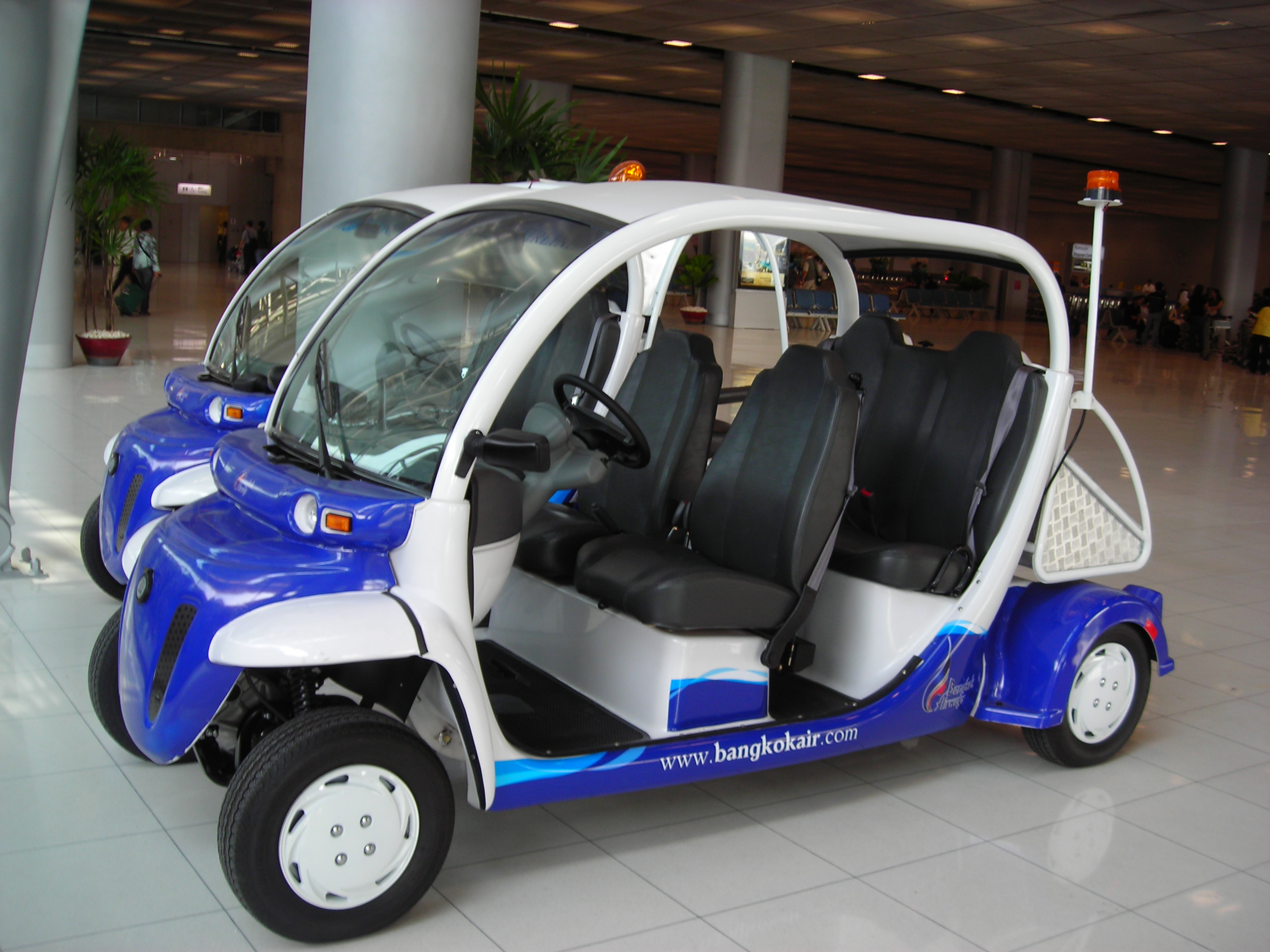 Electric vehicles at Suvarnabhumi International Airport near Bangkok, owned by Bangkok Air.